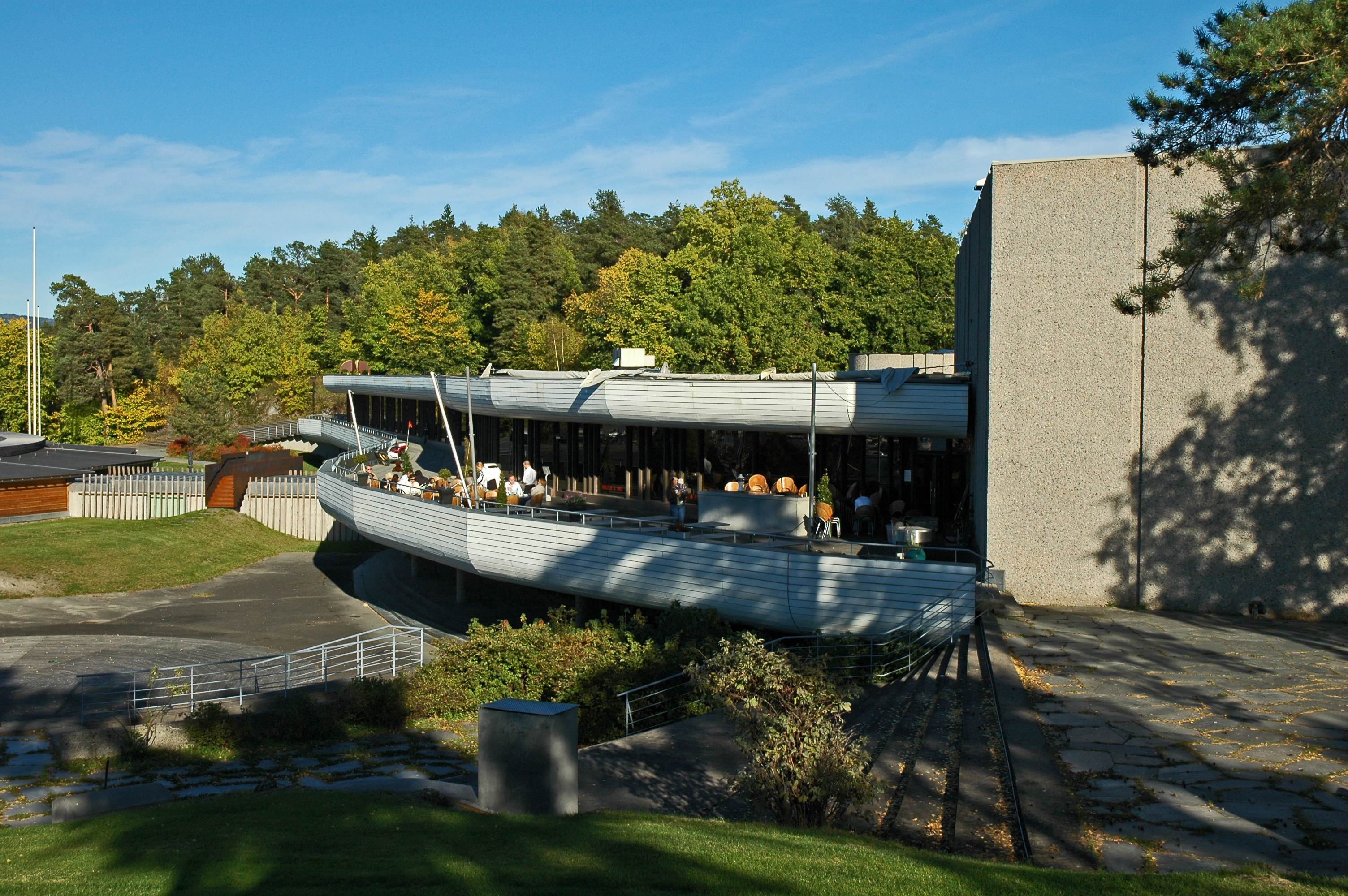 Henie Onstad Center, near Sandvika, in Norway.